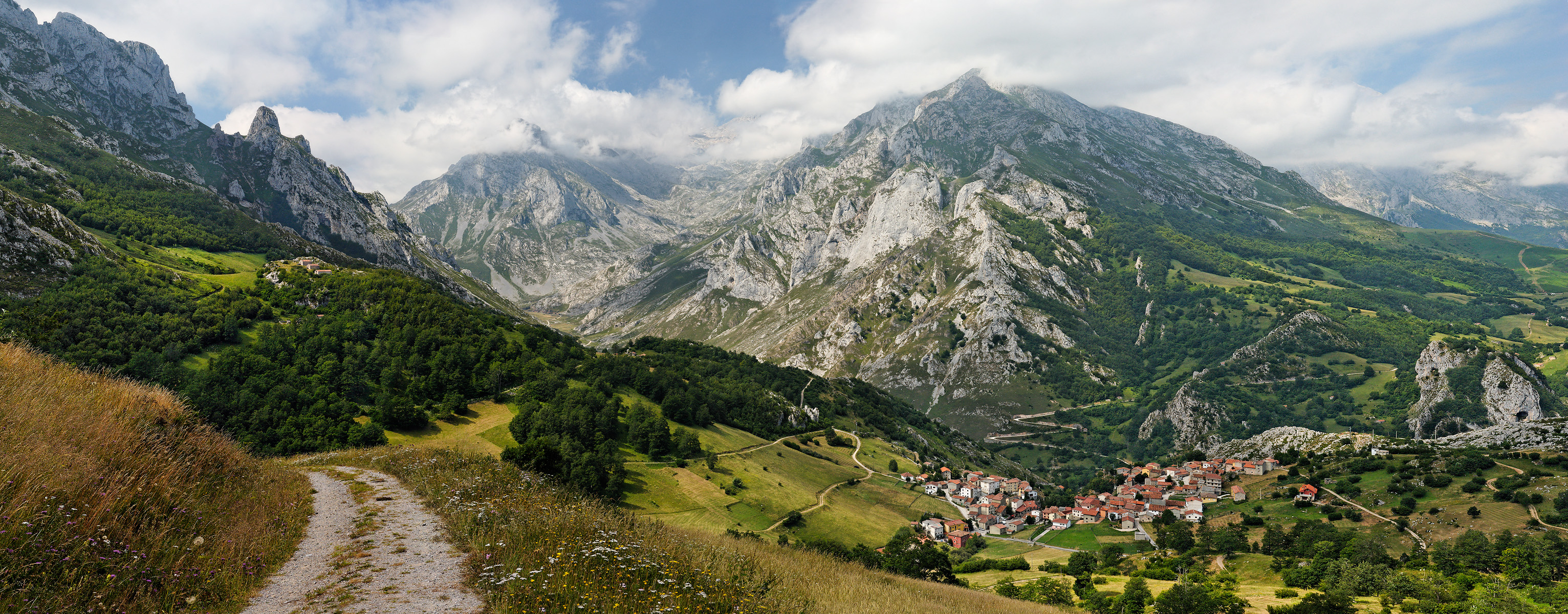 The Central Massif of the Picos de Europa, showing the peaks of Peña Main overlooking the village of Sotres in Cabrales, Asturias, Spain. This is a downsampled copy of a six-part 56Mb stitched panorama.